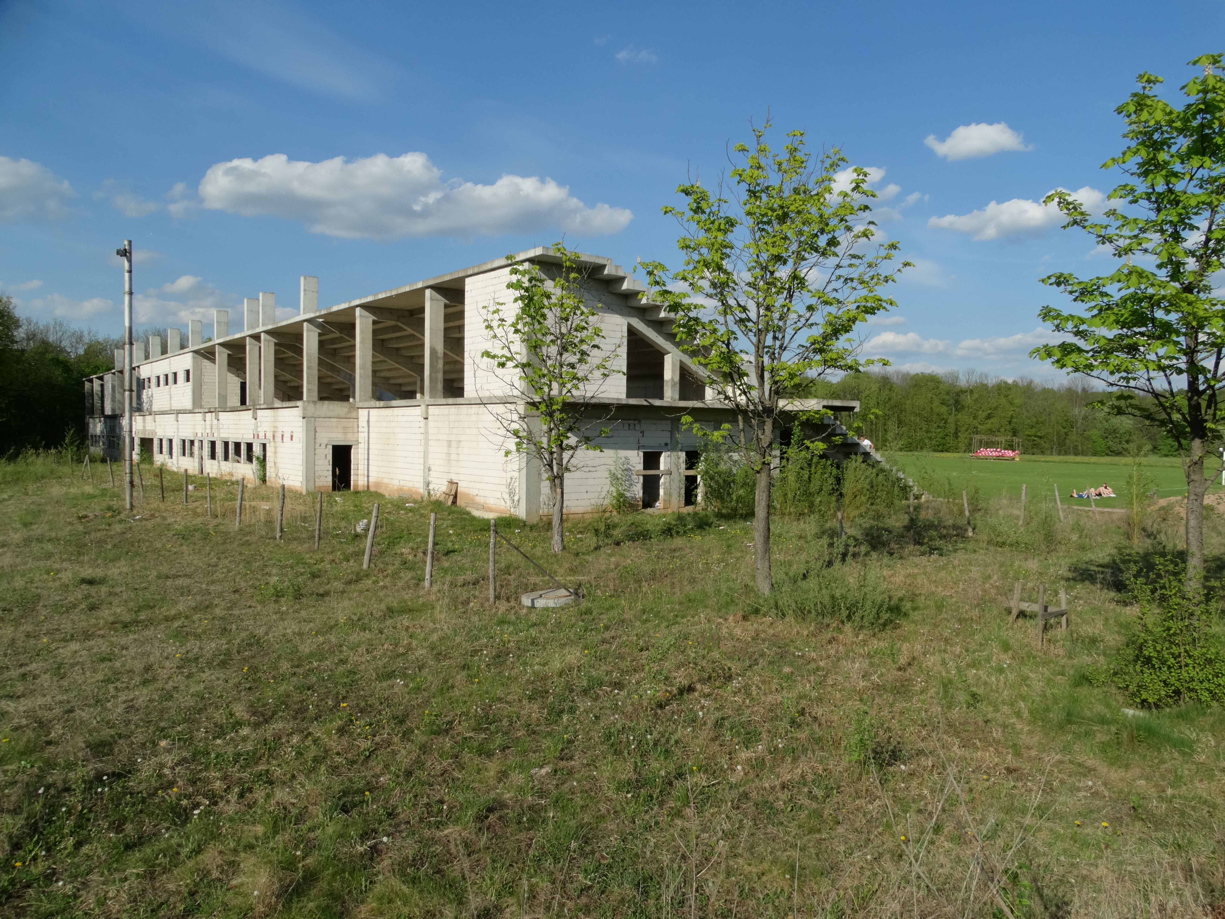 Football ASU Stadium, Kaunas, Lithuania